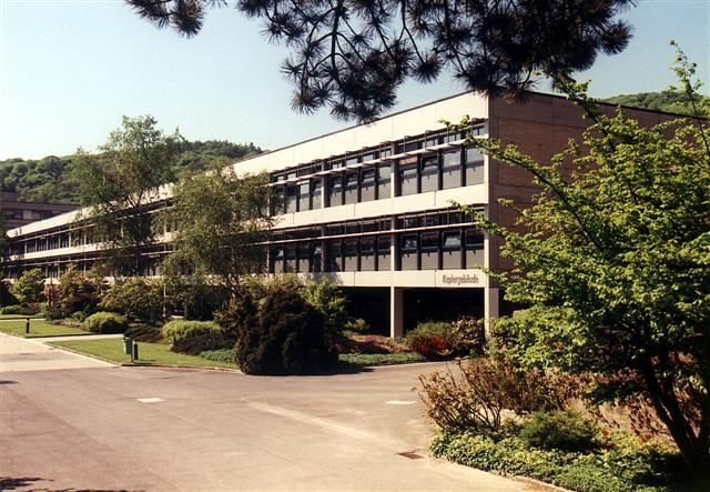 Kepler university, Linz